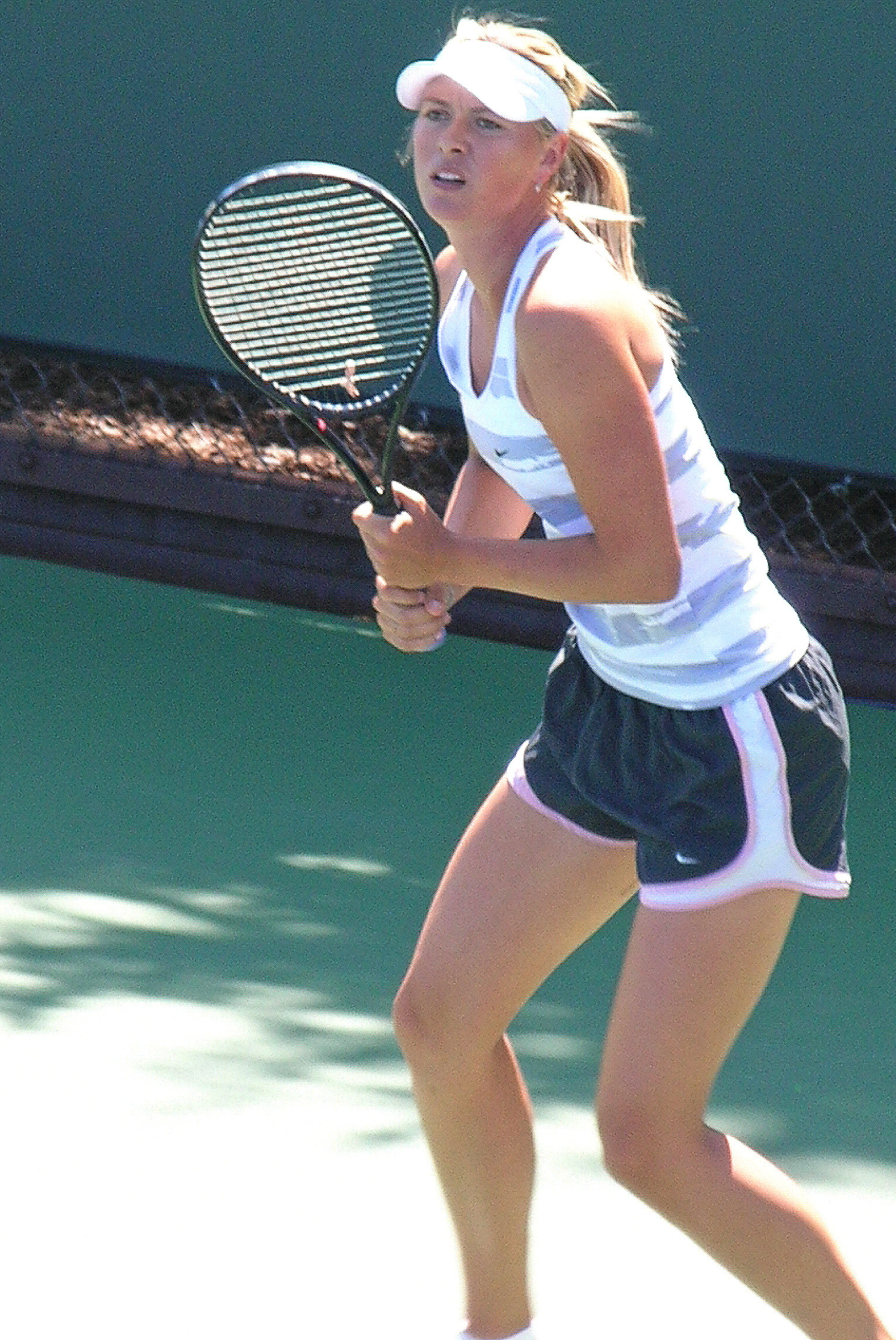 Maria Sharapova practicing at the Bank of the West Classic at Stanford.